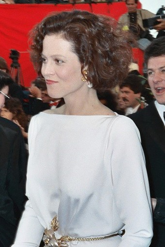 Sigourney Weaver on the red carpet at the at the 61st Annual Academy Awards, 1989. Scanned from the original 35MM film negative.